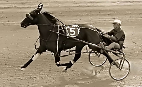 The great pacer, Bret Hanover.